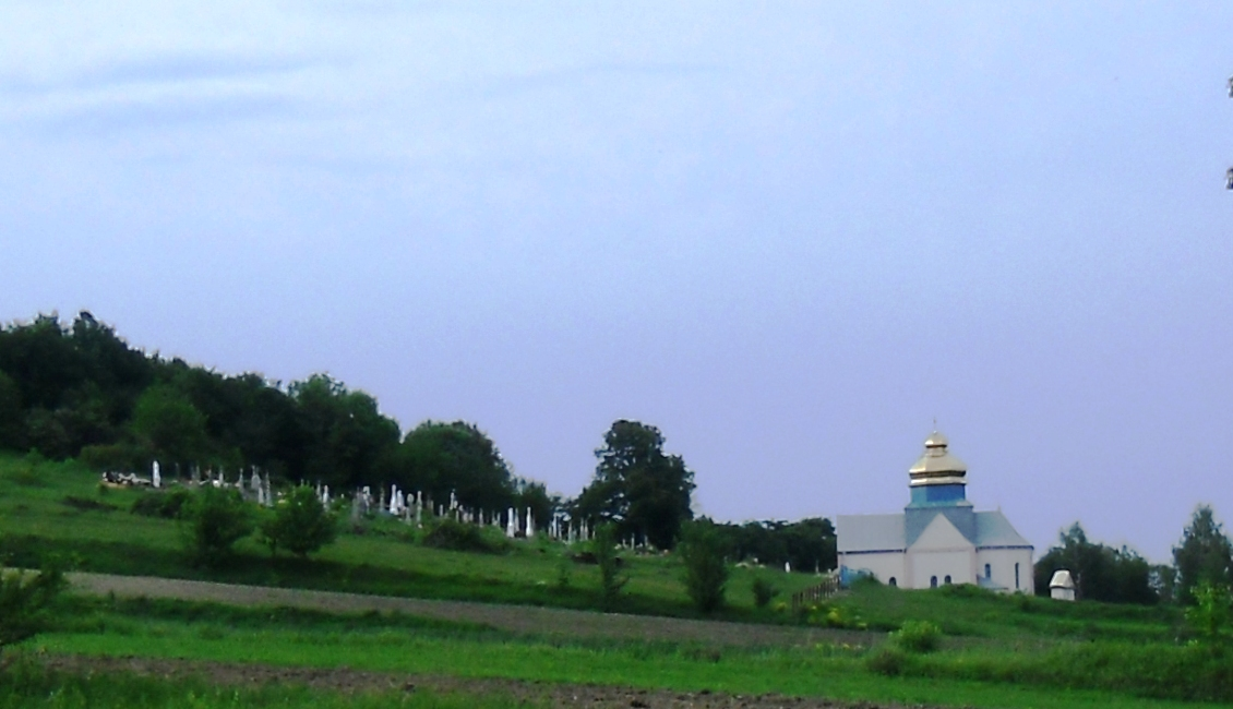 Holy Dormition temple in the village Ratyshchi. Zboriv Raion, Ternopil Oblast.